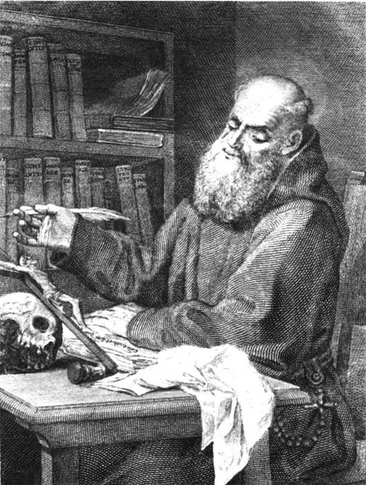 St. Lawrence of Brindisi's engraved portrait